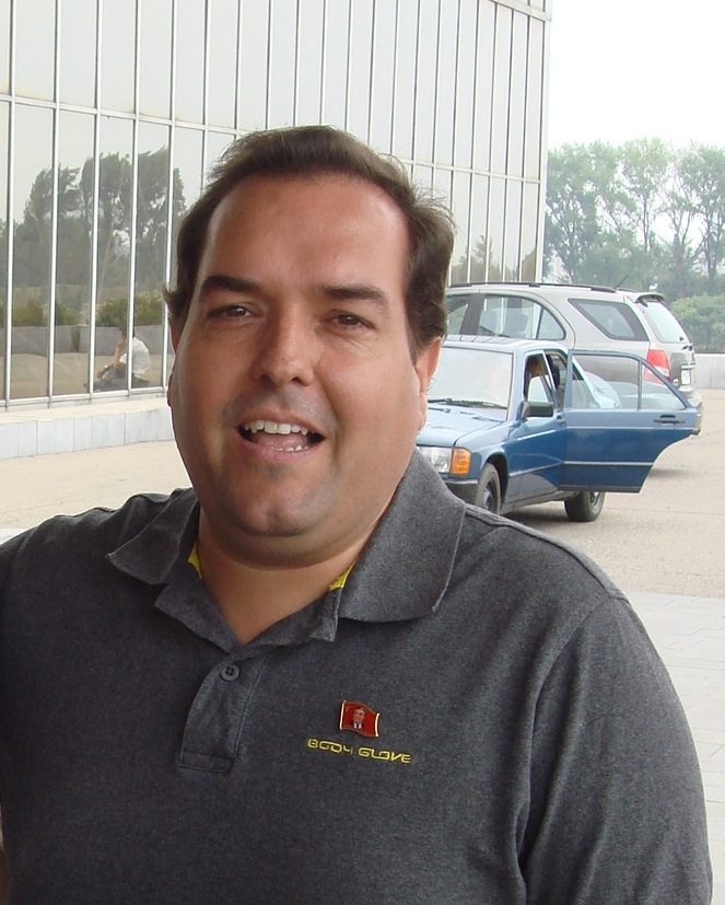 Picture of Alejandro Cao de Benós de Les y Pérez taken infront of the Yanggakdo International Hotel in Pyongyang, June 2012.